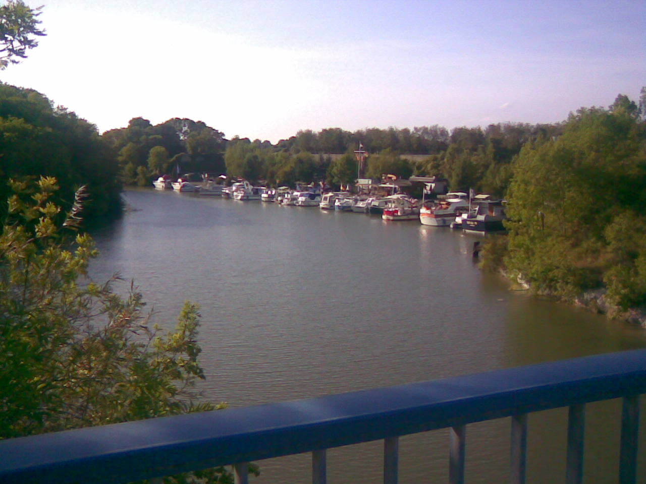 Yachthafen Misburg am Stichkanal Misburger Hafen. Der Kanal verzweigt sich im Bild -Links: Richtung HPCund KWST, -unten Richtung Teutonia Zementfabrik, oben: Hafen Misburg